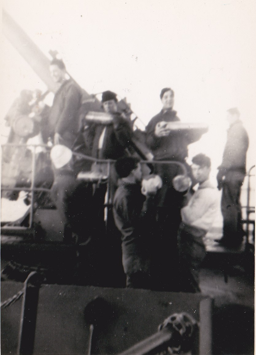 Crew practicing loading before the WWII battle of Anzio, the tallest one in the photo seen standing in front of the barrel is 6'2 Calvin Stoddard O'Rourke first class seaman 1925-2016